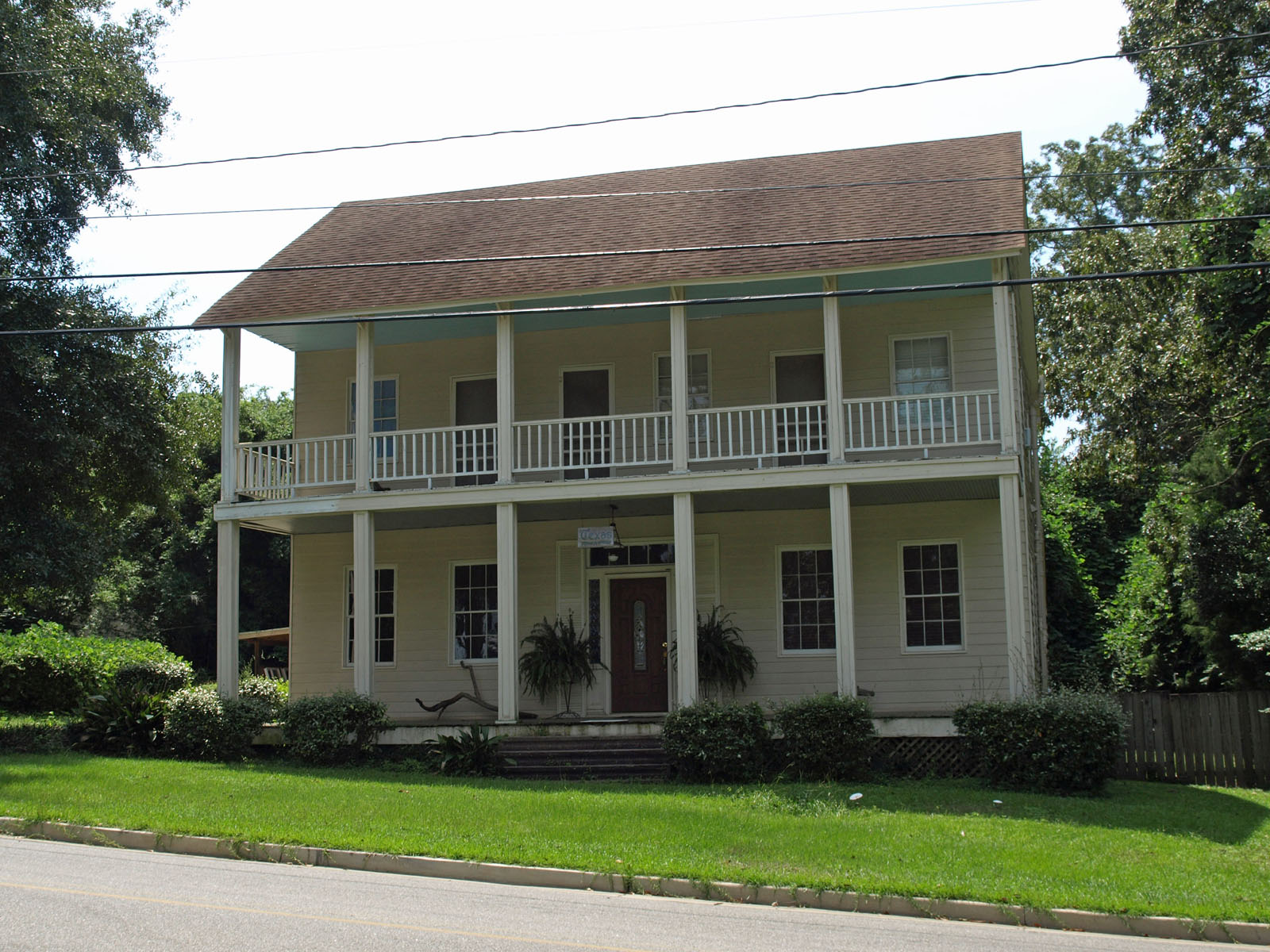 "The Texas" (also known as the Dryer House and the Brunell House) in Daphne, Alabama; listed on the National Register of Historic Places